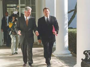 Bill Clinton and Al Gore walking. Location: White House, West Colonnade.